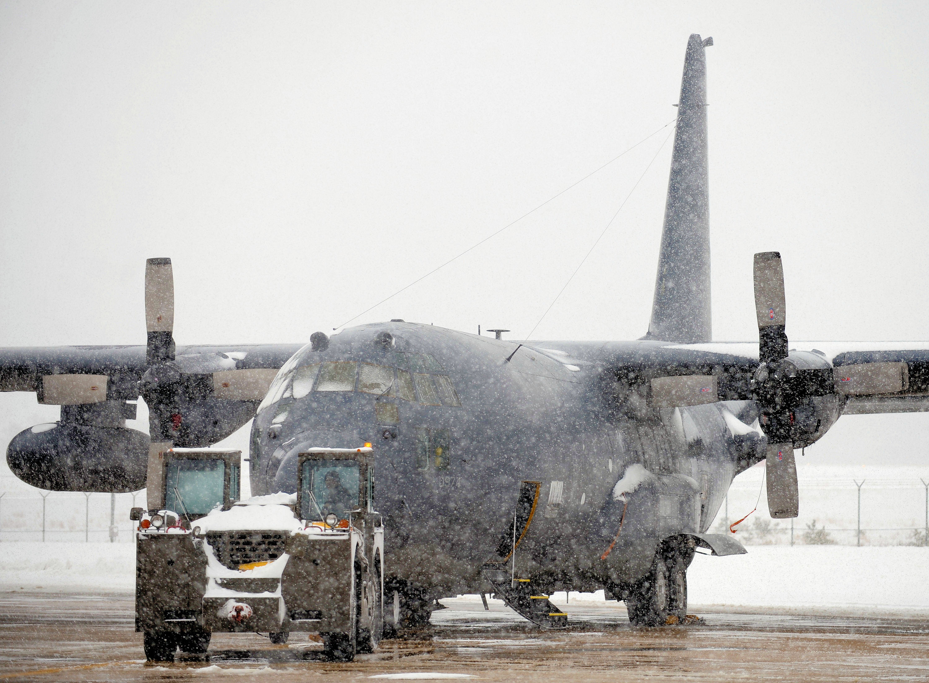 Members of the 106th Aircraft Maintenance Squadron, work to secure a HC-130 on February 26, 2010 during a snowstorm at F.S. Gabreski Airport (ANG), Westhampton Beach, N.Y. The 106th Rescue Wing is part of the New York Air National Guard. (U.S. Air Force Photo/Staff Sgt. David J. Murphy)